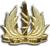 Israeli Navy cop badge